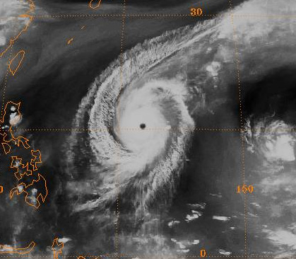 Typhoon Isa near peak intensity on April 19, 1997